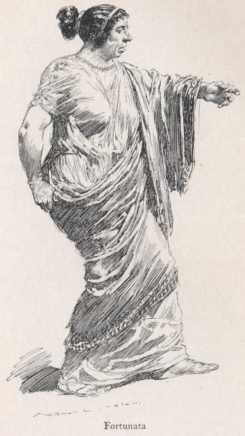 Illustration by Norman Lindsay for Petronius Arbiter's Satyricon